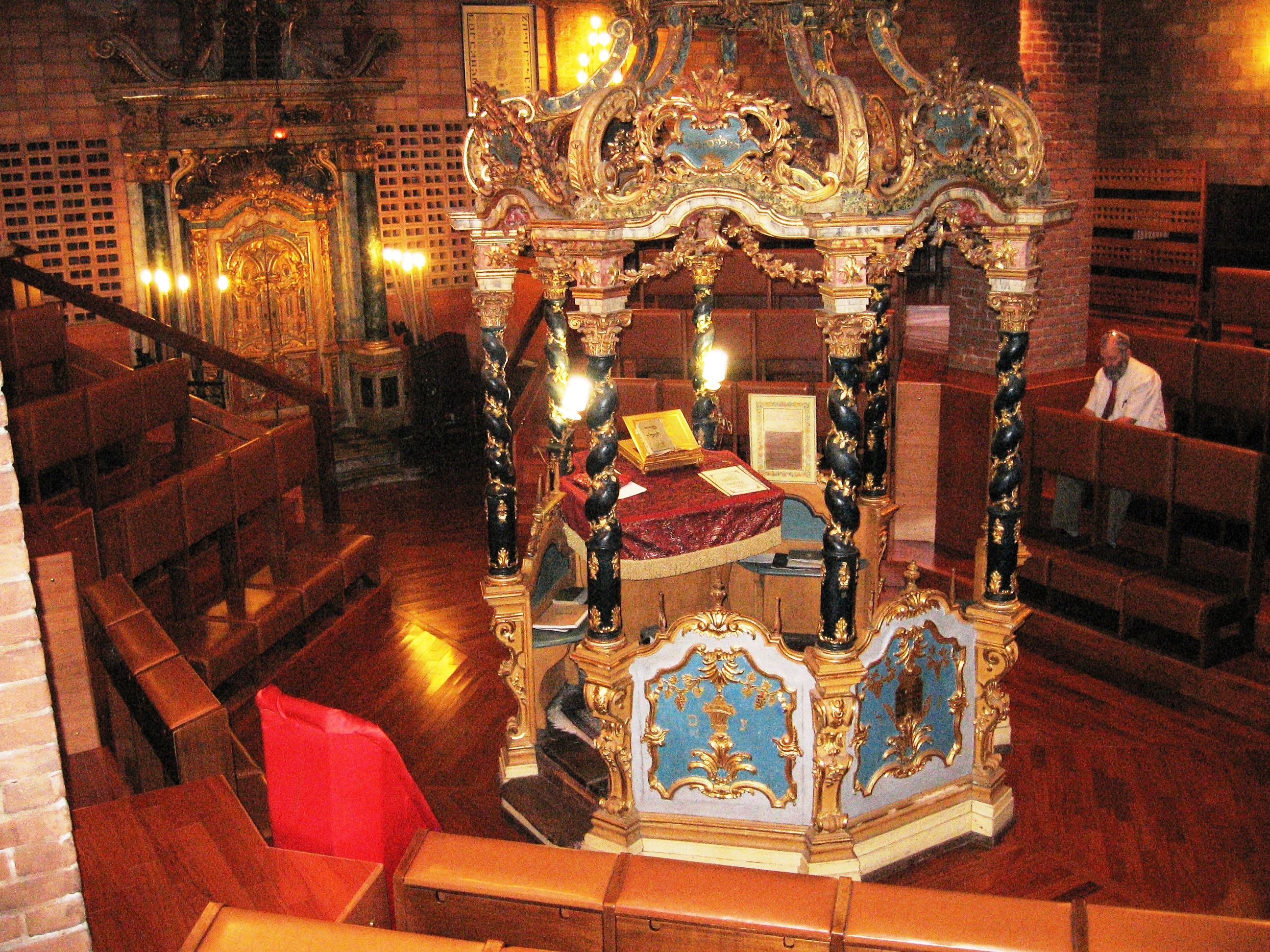 Torino italian synagogue